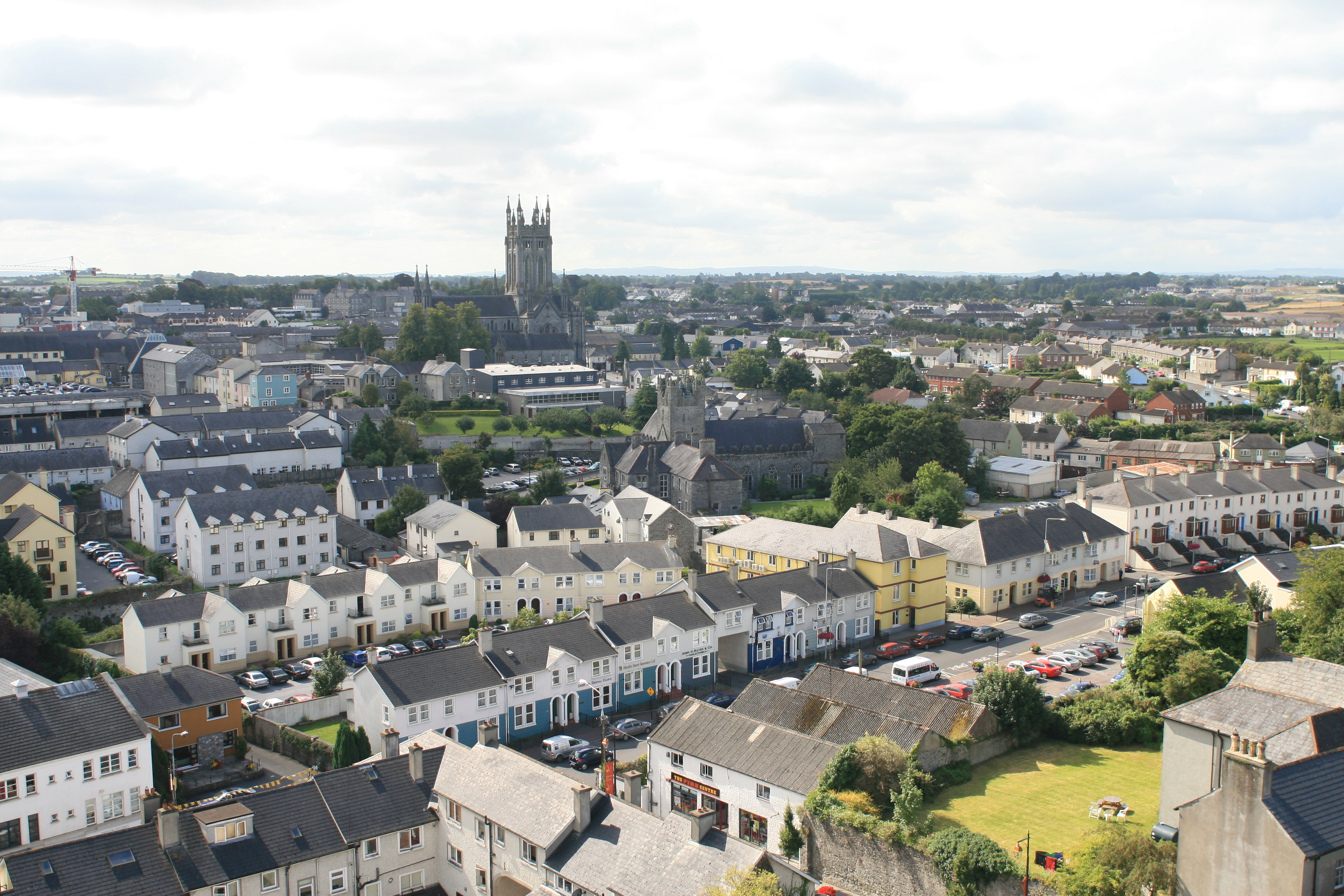 Kilkenny, County Kilkenny, Ireland View from the round tower at St. Canice's Cathedral to St. Mary's Cathedral.